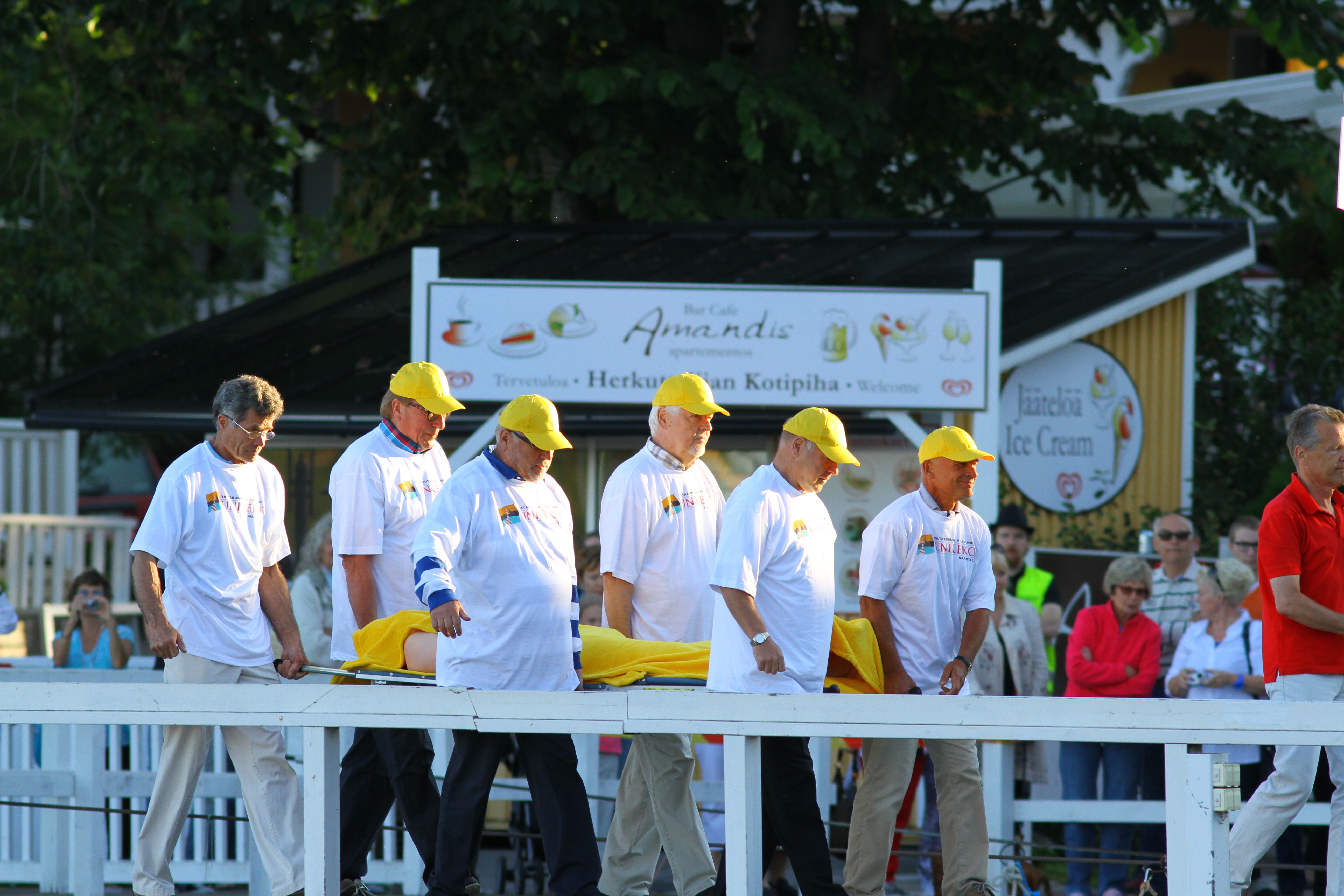 National Sleepy Head Day (Finnish: Unikeonpäivä) in the city of Naantali, Finland.